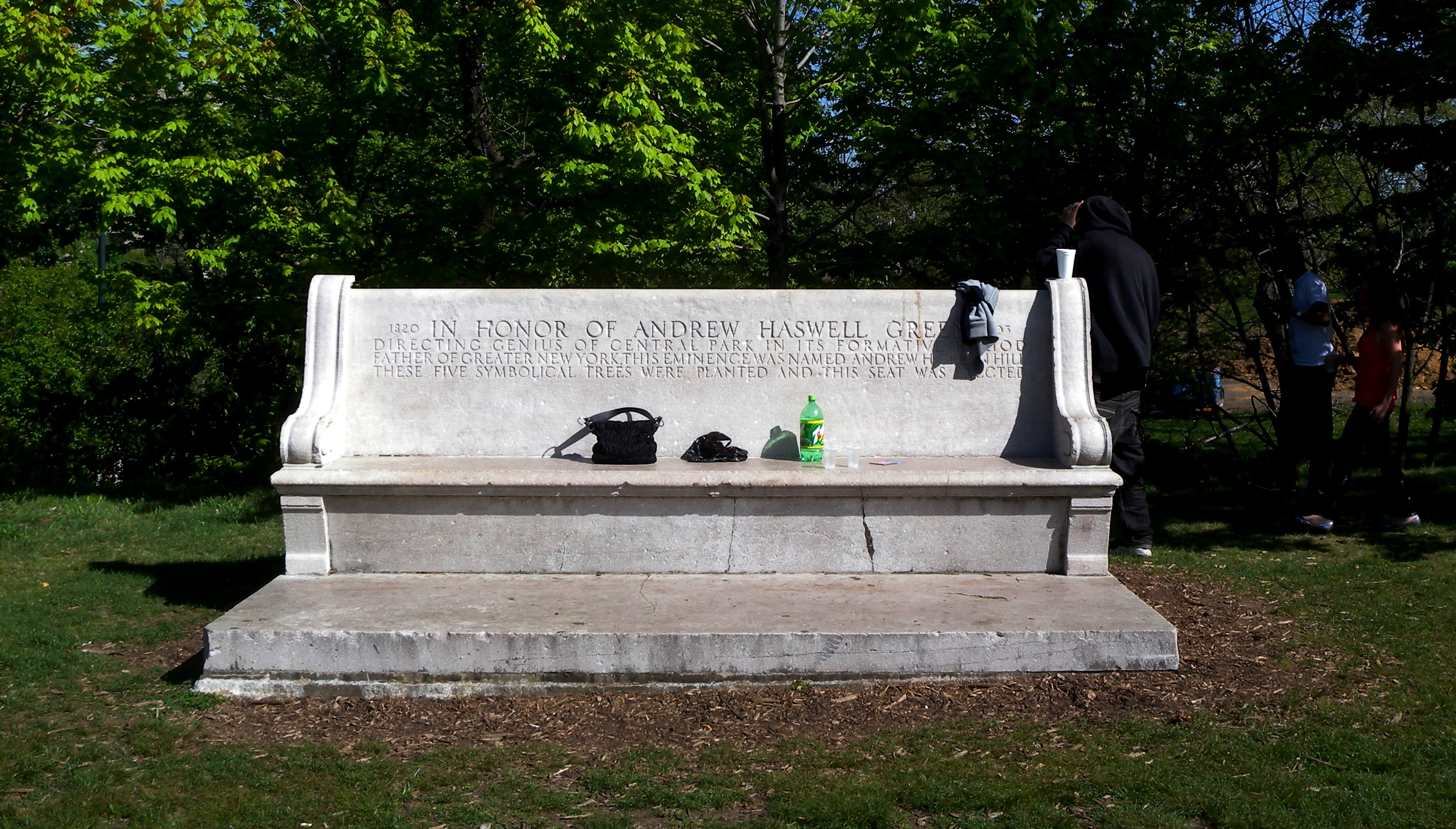 Looking southeast at memorial bench of Andrew Haswell Green on a sunny afternoon. 'See File:Andrew H Green bench sign jeh.jpg for explanatory sign.